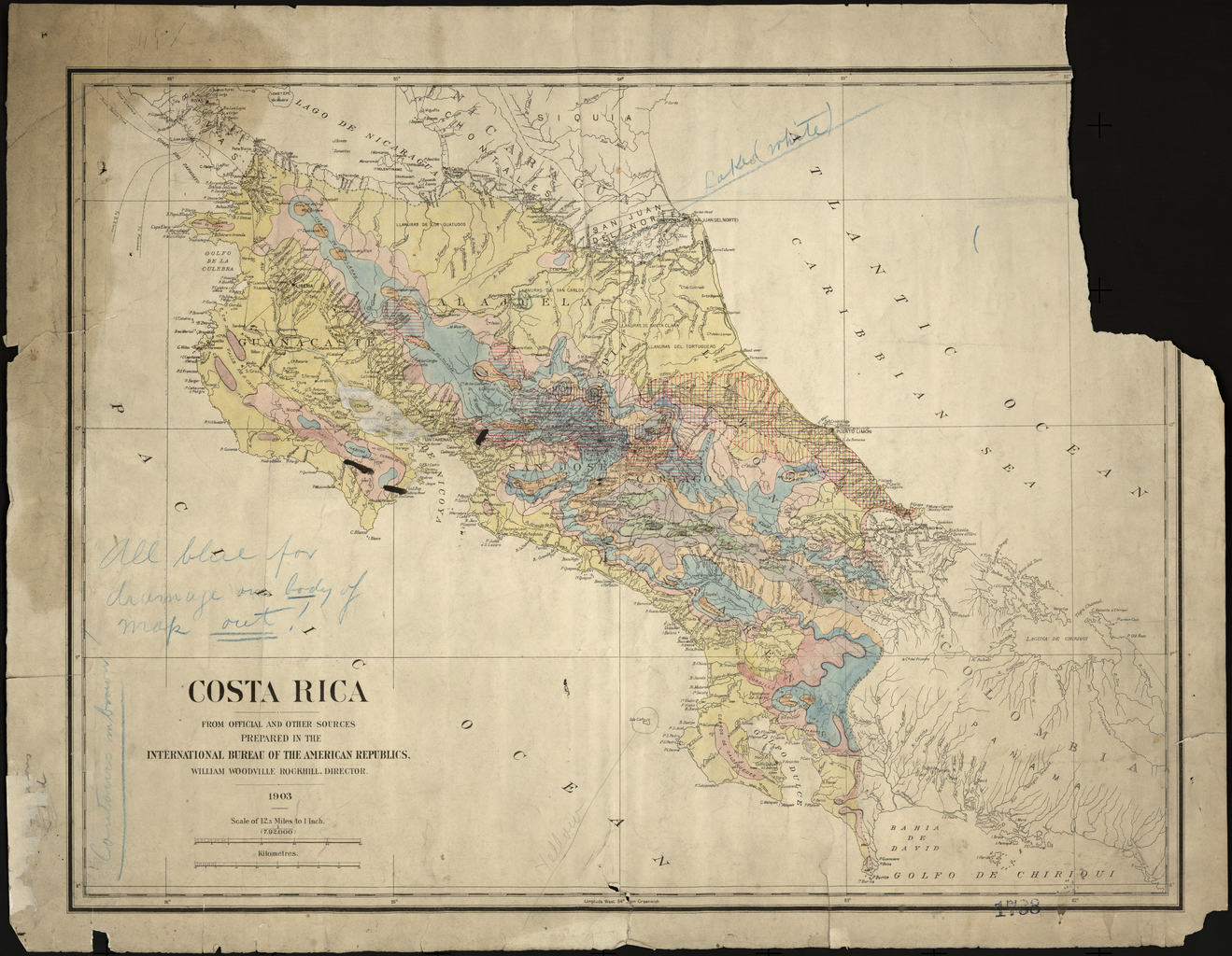 This 1903 map of Costa Rica was published by the International Bureau of the American Republics (instituted in 1910 as the Pan American Union), an agency established in 1890 in Washington D.C., by resolution of the International Conference of American States. The bureau issued handbooks, maps, and a monthly bulletin for disseminating information relating to the promotion of trade among the countries of the Americas. The map shows physical features, such as rivers, lakes and mountains, international and provincial borders, and the routes of steamship lines from the port of San Juan del Sur, Nicaragua. Panama did not become independent until November 1903, and the map shows Costa Rica as still bordering on Colombia to its south. The map is held in the Columbus Memorial Library of the Organization of American States, successor organization of the International Bureau of the American Republics and the Pan American Union. The handwritten markings on the map and the damage in the upper left attest to its use as a working document within the organization.